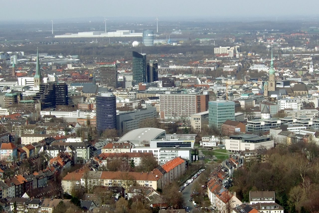 Dortmund City, Skyline